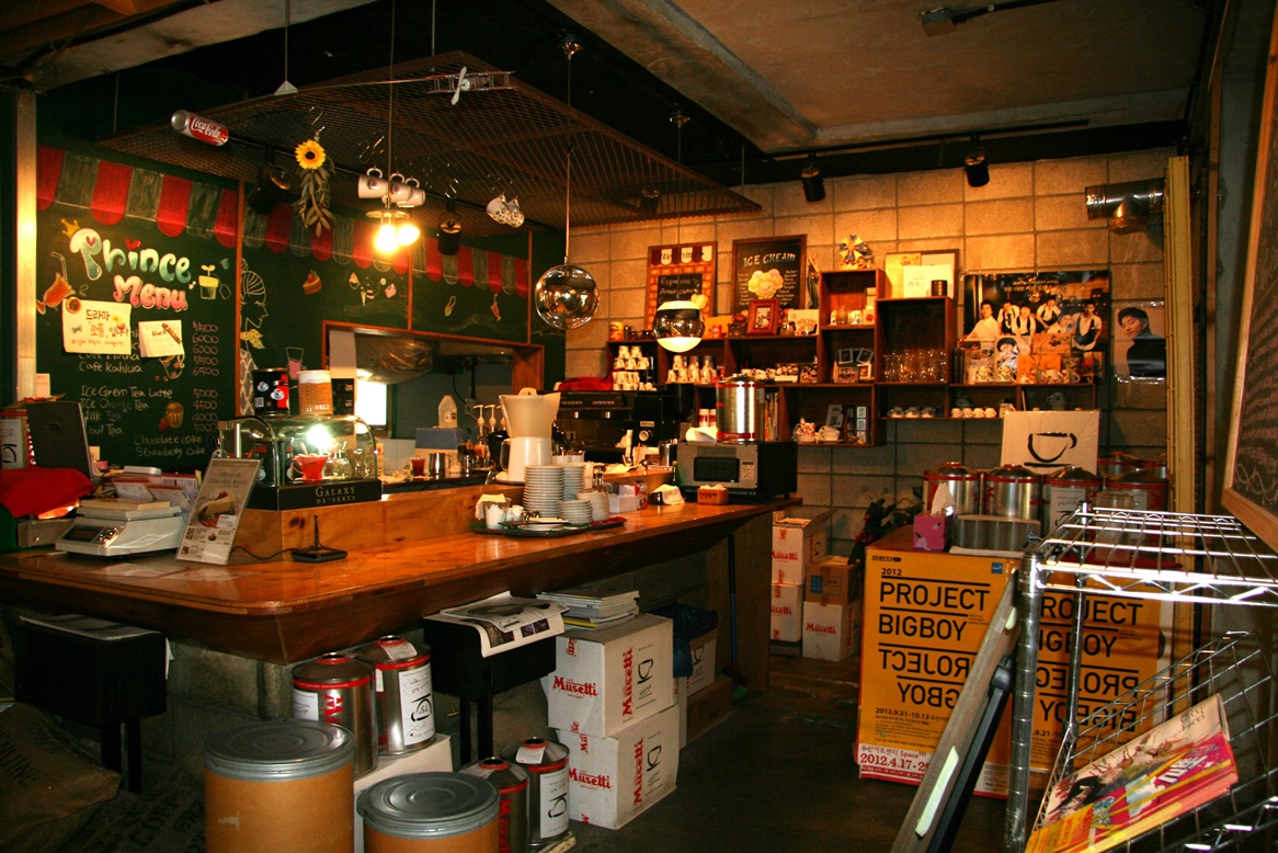 The service counter of The 1st Shop of Coffee Prince, in Hongdae, Mapo-gu, Seoul in 2012. It was used as the main filming location for 2007 South Korean Munhwa Broadcasting Corporation (MBC) television drama series of the same name.